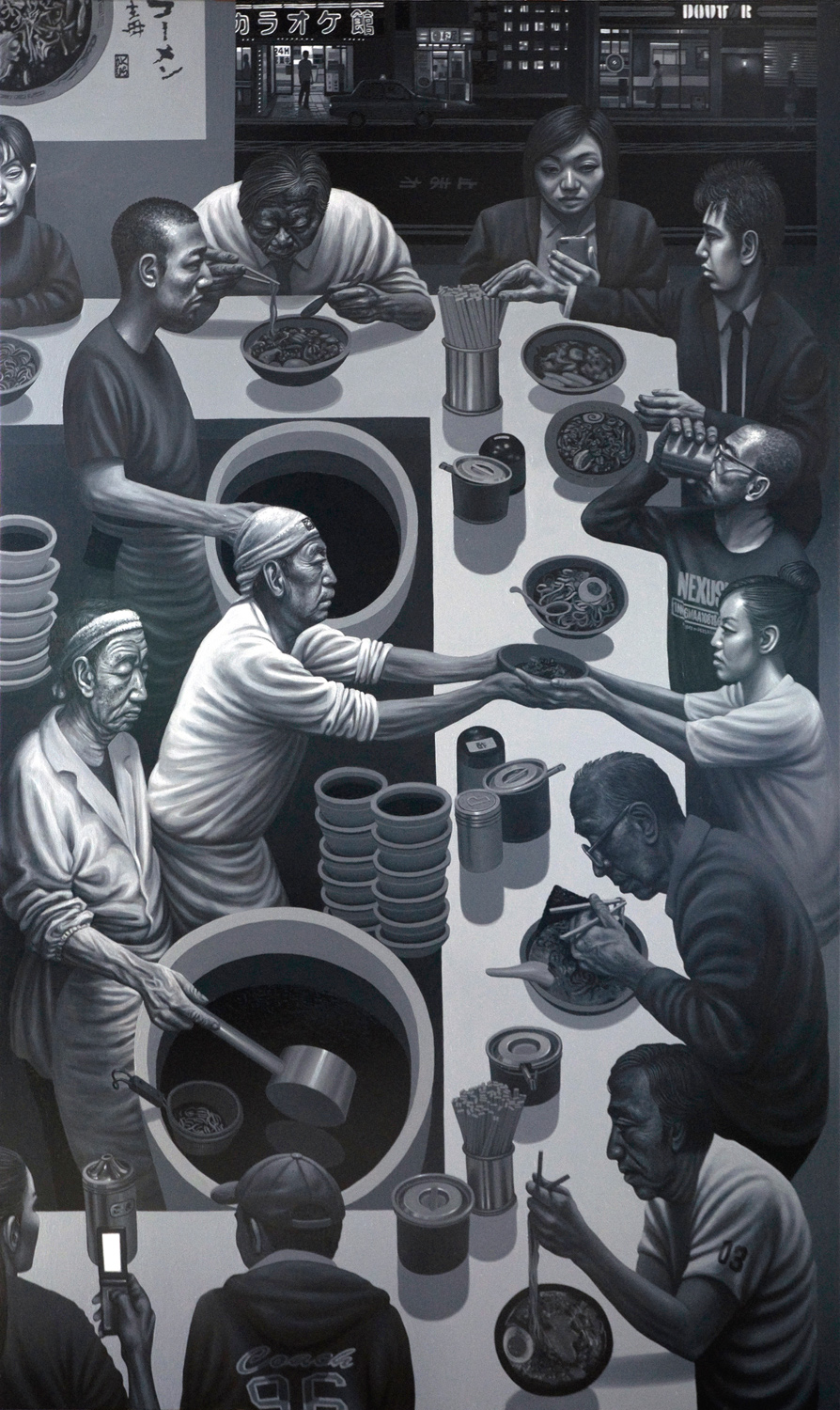 Mr. Kitazawa's Noodle-Bar by British artist Carl Randall